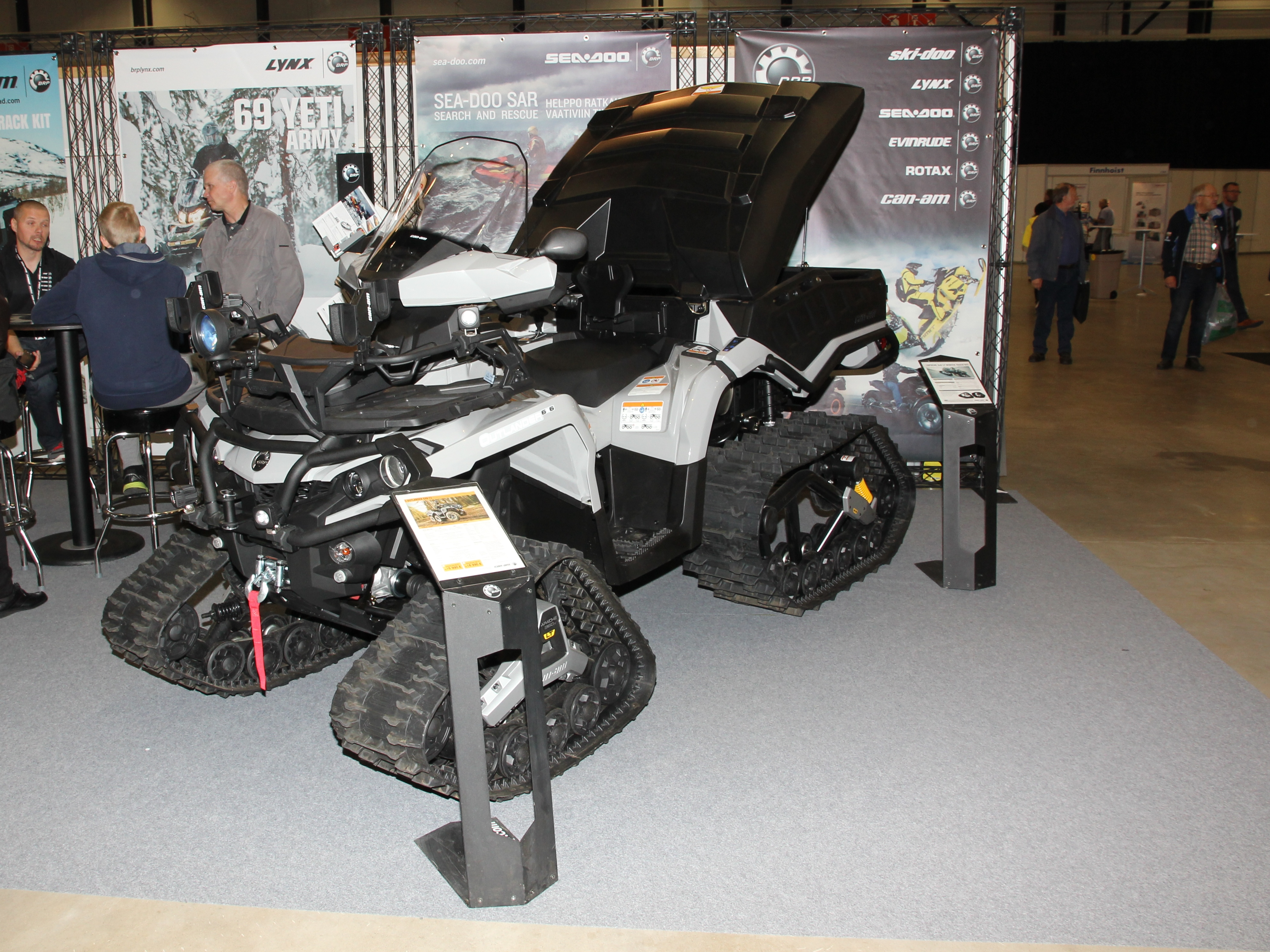 Can-Am Outlander 6x6 T3 all-terrain vehicle with Apache 6x6 LT winter tracks at Comprehensive security exhibition 2015 in Tampere.